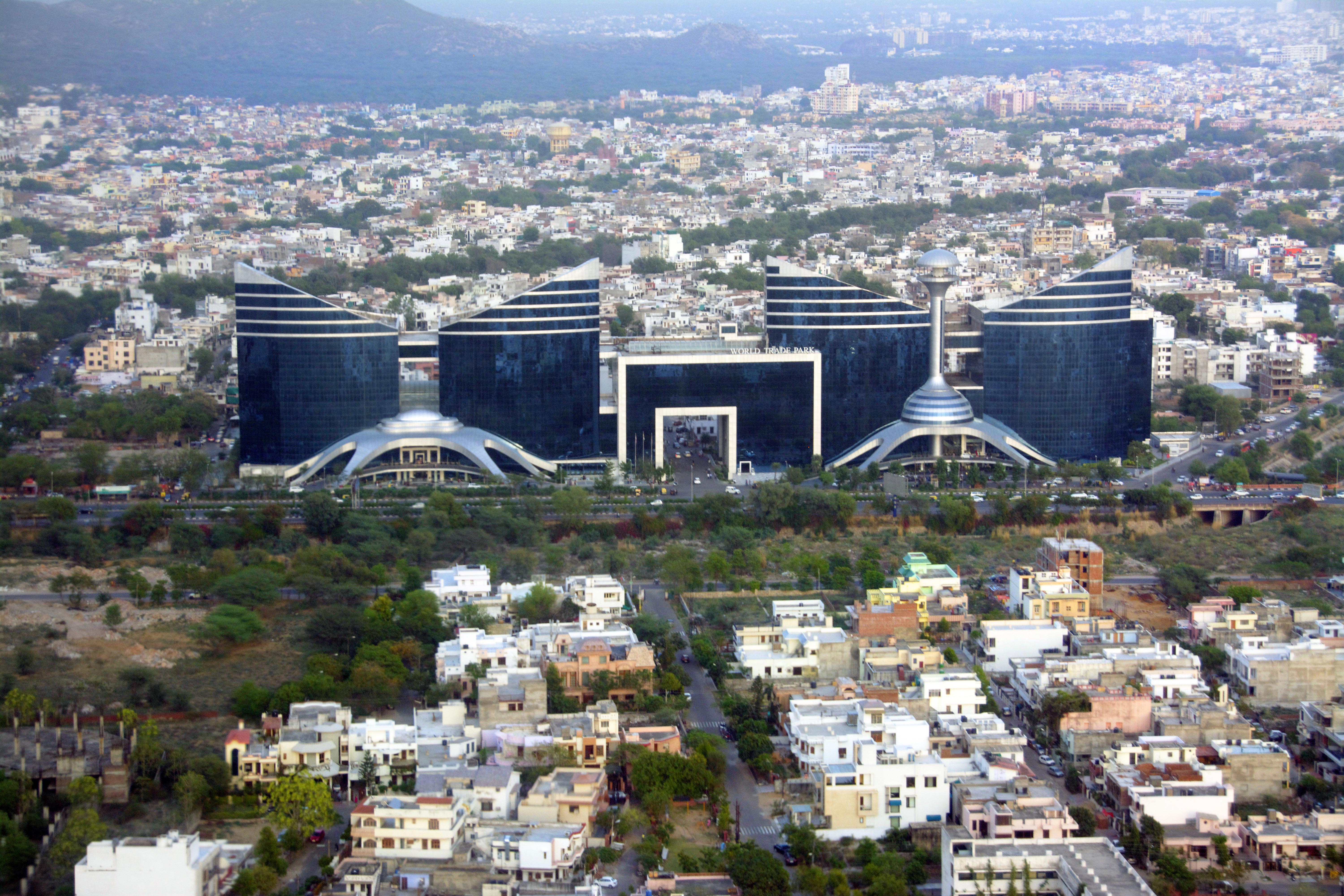 Ariel view of World Trade Park